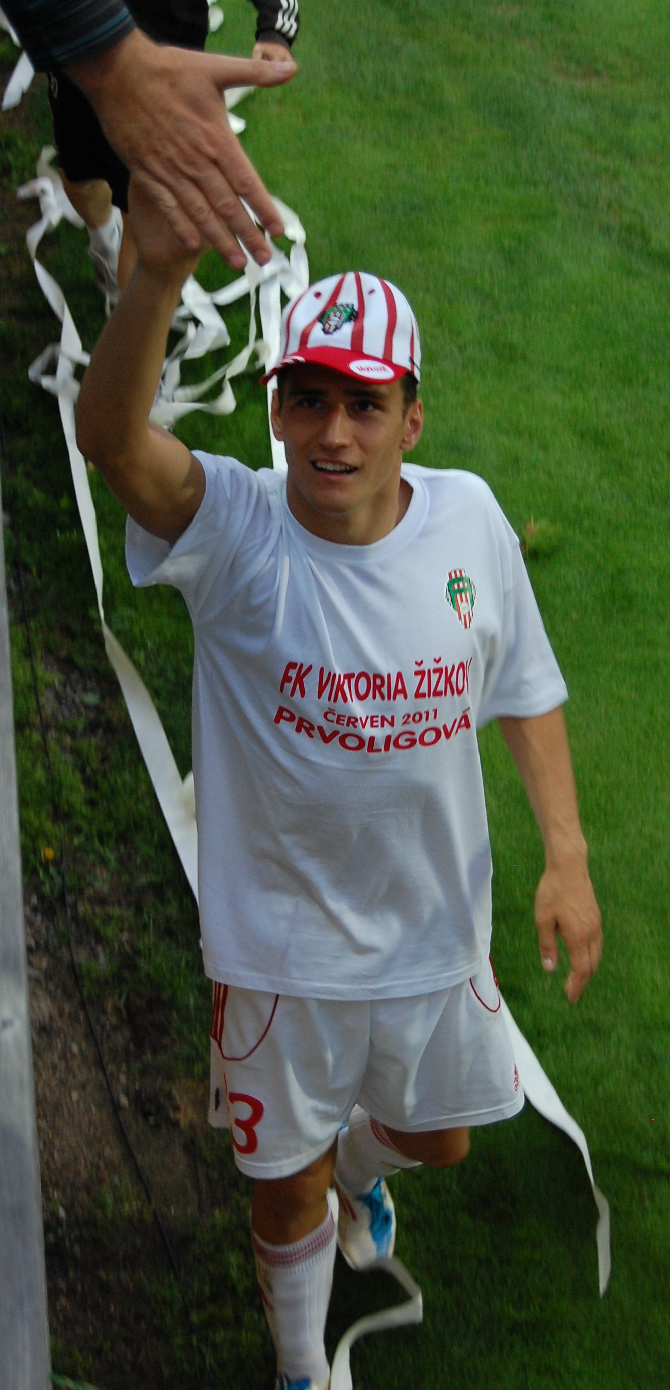 Miroslav Marković of FK Viktoria Žižkov after the match against FC Hlučín